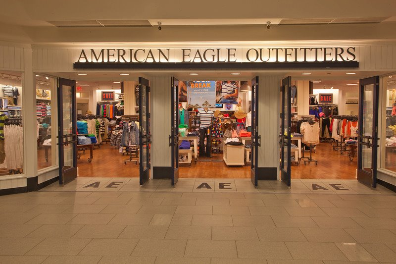 American Eagle